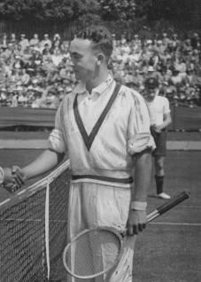 Vivian Mc Grath, Davis cup, 1934